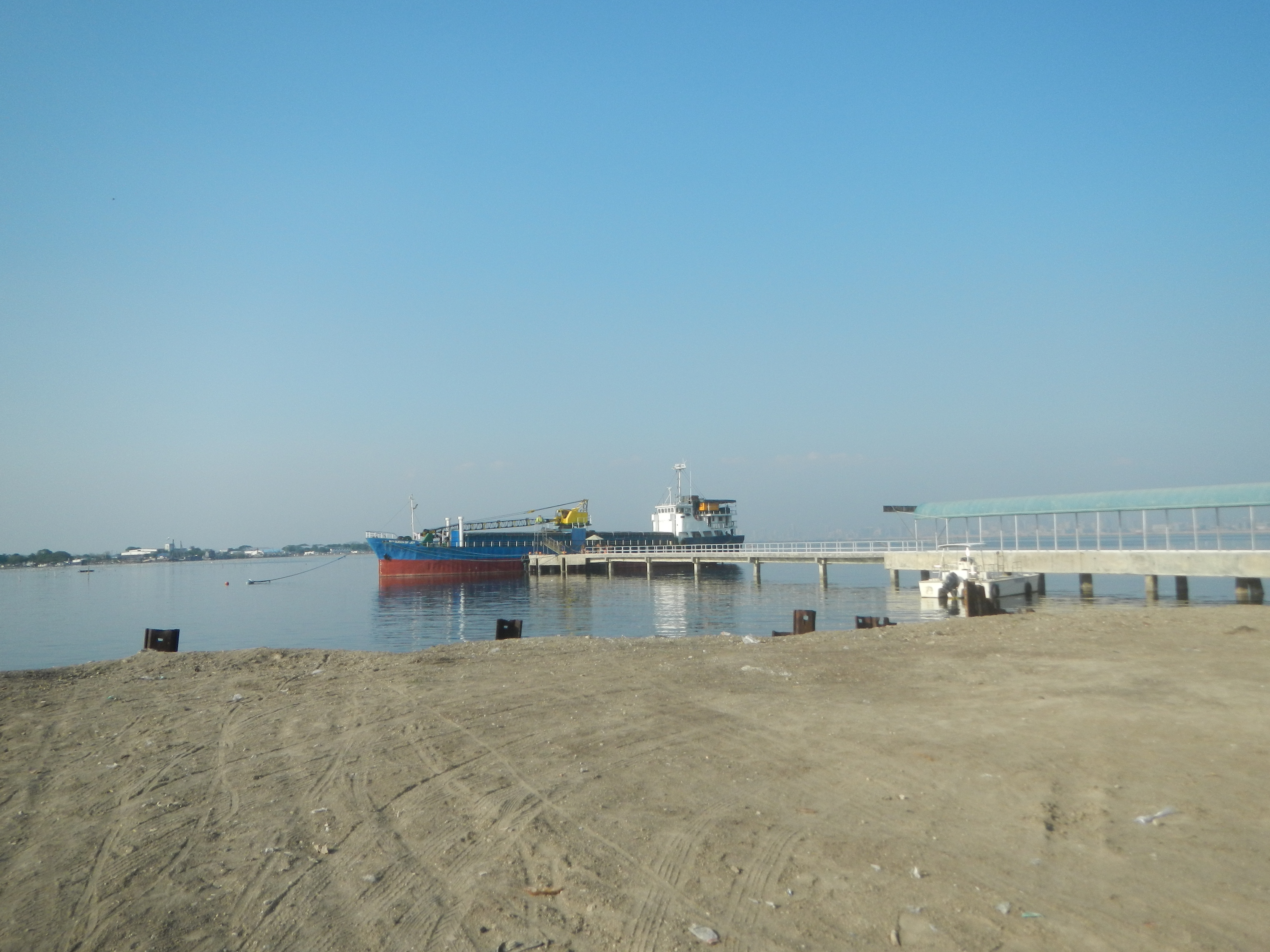 New Cavite City Hall Cavite City clock tower Cavite City Port and Navy Yard - Bacoor Bay Cavite City Hall of Justice Negosyo Center Cavite City Cavite City park and children's playground Jose Rizal monuments in Cavite City Barangays 61-A (Talong A; Poblacion) & 62-A (Kangkong A; Poblacion), Cavite City from Dalahican Manila-Cavite Road Cavite City along Bacoor Bay Category:Barangays of Cavite Barangays Barangay 61-A (Talong A; Poblacion) 14.4802, 120.9036 Barangay 62-A (Kangkong A; Poblacion), Cavite City 14.4823, 120.9128 Cavite City N62 highway (Philippines) Philippine highway network (Note: Judge Florentino Floro, the owner, to repeat, Donor Florentino Floro of all these photos hereby donate gratuitously, freely and unconditionally Judge Floro all these photos to and for Wikimedia Commons, exclusively, for public use of the public domain, and again without any condition whatsoever).